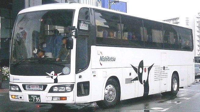 Nishitetsu Highway Bus Hakata-go. See below.